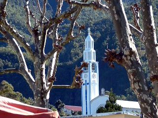 Cilaos (La réunion) Church, with the caldera walls as a backdrop// l'église de Cilaos (La Réunion), sur fond de caldéra